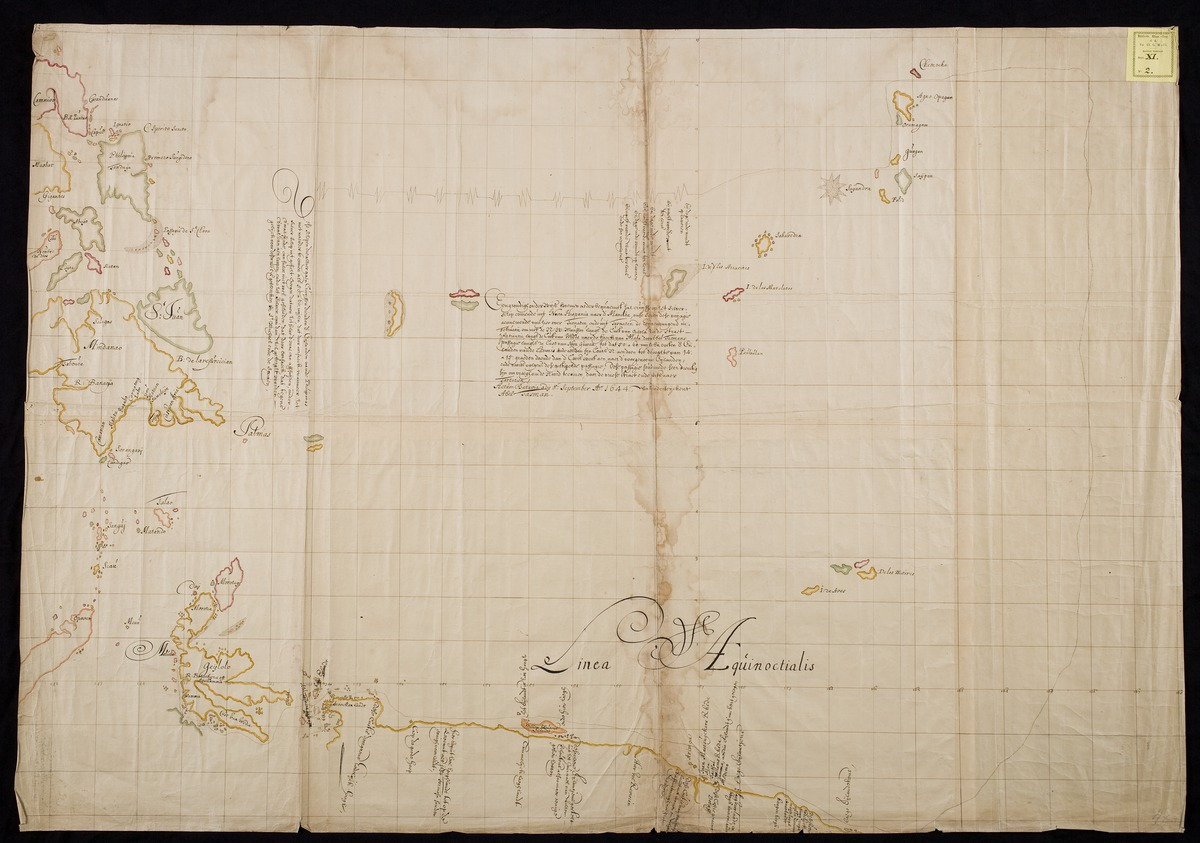 Abel Tasman (perhaps by him...) - Hand drawn map of 1644. Collectie Moll, University Library Utrecht.